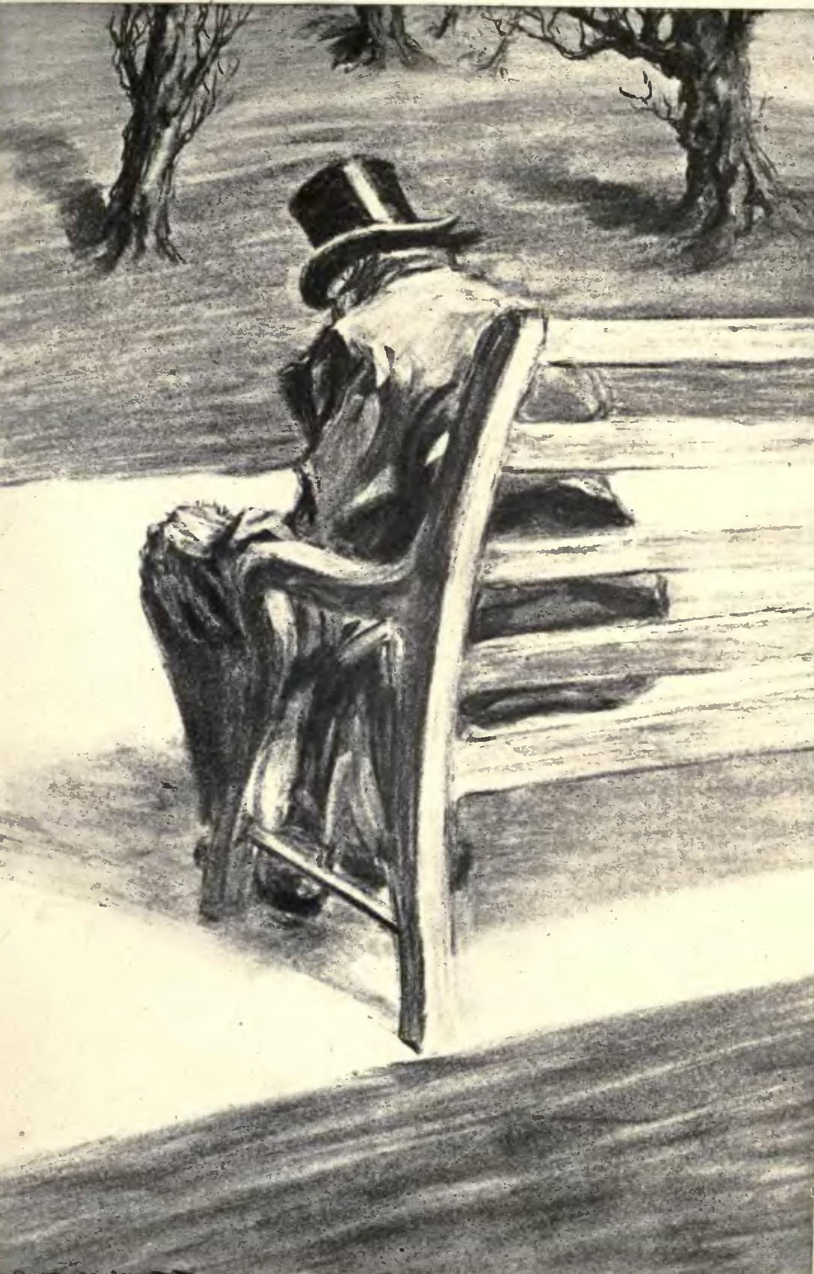 Artwork by Charles Raymond Macauley for the 1904 edition of The strange case of Dr. Jekyll and Mr. Hyde by Robert Louis Stevenson. Publisher: New York Scott-Thaw